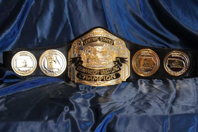 This is the newly designed NWA Central States Heavyweight Championship belt, made 100% in the USA by JP belts.